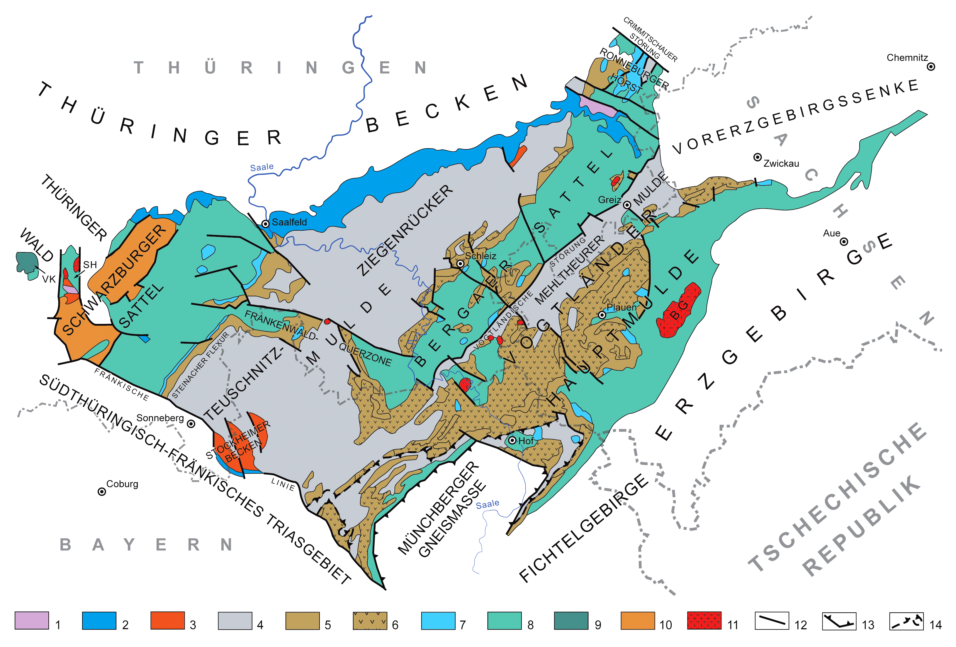 Geologic overview map of the Thuringian-Franconian-Vogtlandian Slate Mountains (without Quaternary). Meaning of numbers in the legend: 1-3 = undeformed post-Variscan cover, 4-10 = rocks deformed by Variscan orogeny, 11 intrusive rocks, 12-14 tectonic features. 1 = Triassic, 2 = Upper Permian (Zechstein), 3 = Uppermost Carboniferous and Lower Permian (Rotliegend), 4 = Lower Carboniferous (Mississippian), 5 = Devonian sedimentary rocks, 6 = Devonian basalts and spilites, 7 = Silurian, 8 = Ordovician, 9 = Cambrian, 10 = Precambrian, 11 = variscan granitoid bodies, 12 = main faults, 13 = margin of metamorphic rocks of the Münchberg Massif (probably part of a nappe), 14 = margin of "bavarian facies" of the non-metamorphic paleozoic succession (probably a nappe but uncertain). Abbreviations:, BG = Bergen Granite, SH = "Schleuse-Horst" (a horst structure named after the Schleuse River), VK = "Vesser Komplex" (volcanosedimentary rock association of Vesser). After Henningsen & Katzung (2006), Linnemann (2003), and several geologic maps of Germany (GÜK 200).